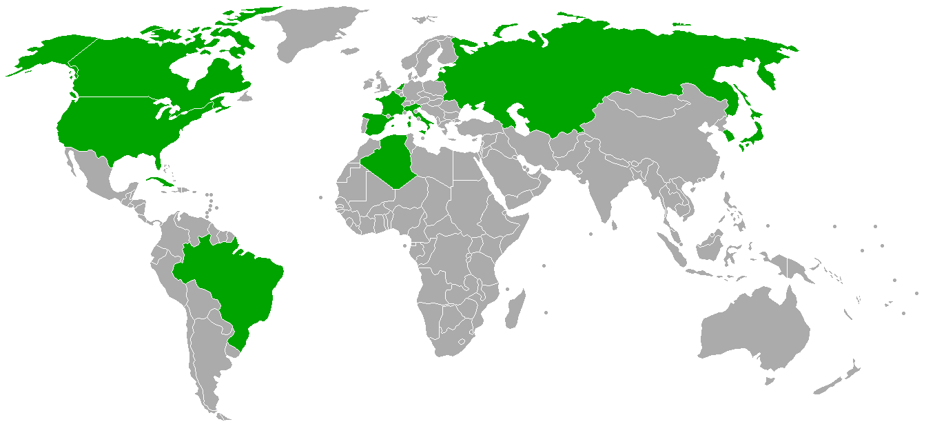 Volleyball at the 1992 Summer Olympics – Men's volleyball